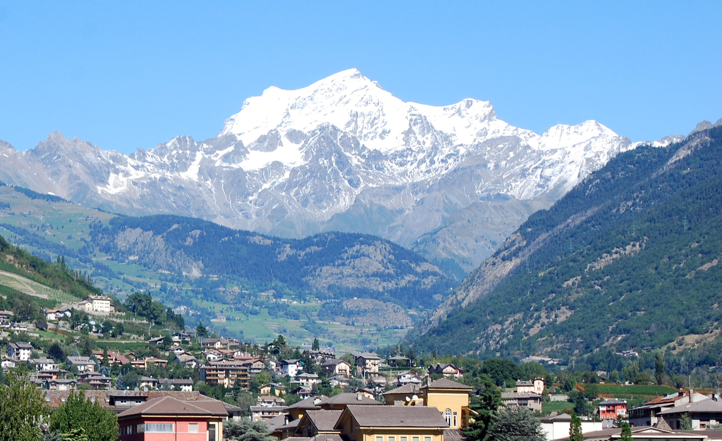 Grand Combin from Aosta